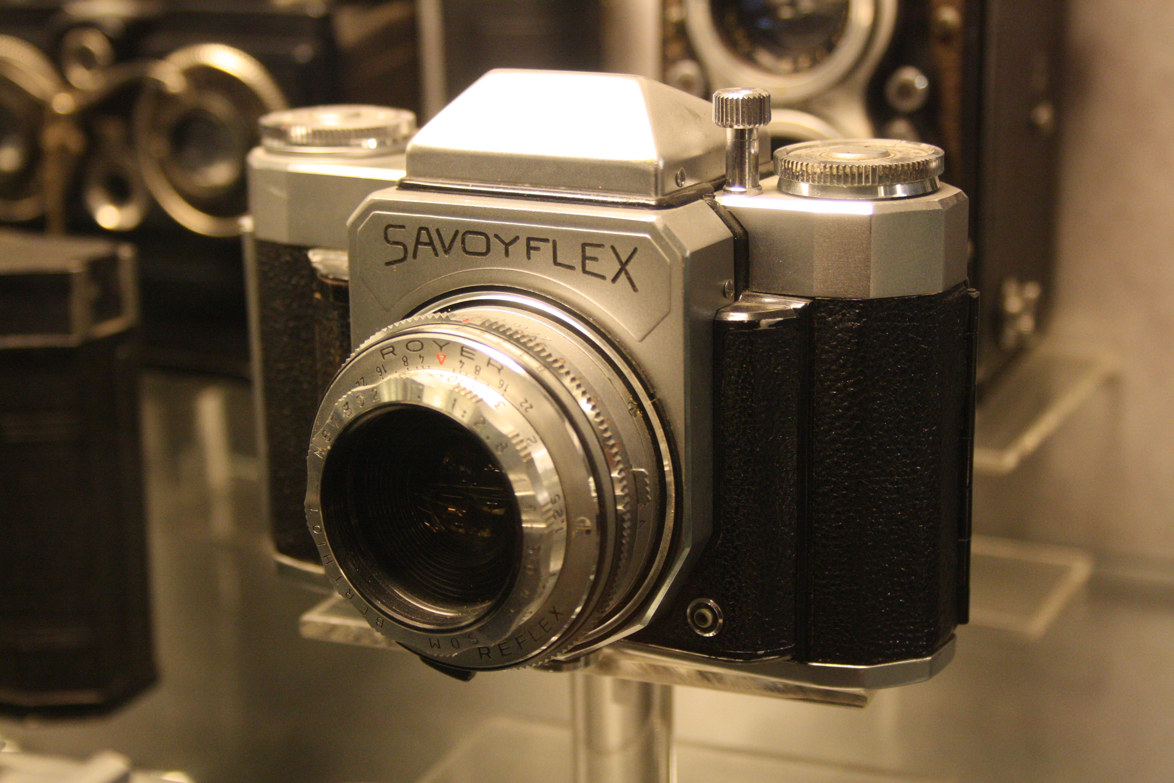 Savoyflex camera from the Royer company in the French Museum of Photography in Bièvres, Essonne, France.